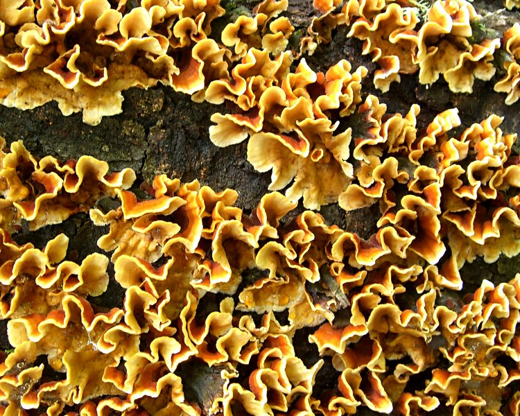 Scientific Name: Stereum complicatum (Fr.) Fr. Common Name: Crowded Parchment Certainty: positive (notes) Location: Southern Appalachians; Smokies; CabinCove